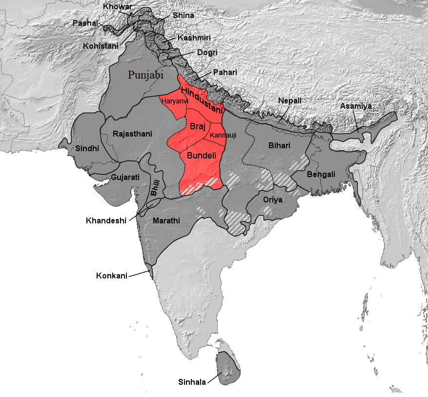 Varieties of Western Hindi.